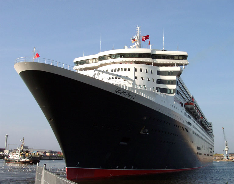 RMS Queen Mary 2